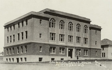 Photographic postcard of Adams County Courthouse, Hettinger, North Dakota